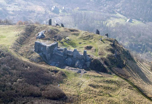 Csobánc, Castle, Hungary, aerial photography